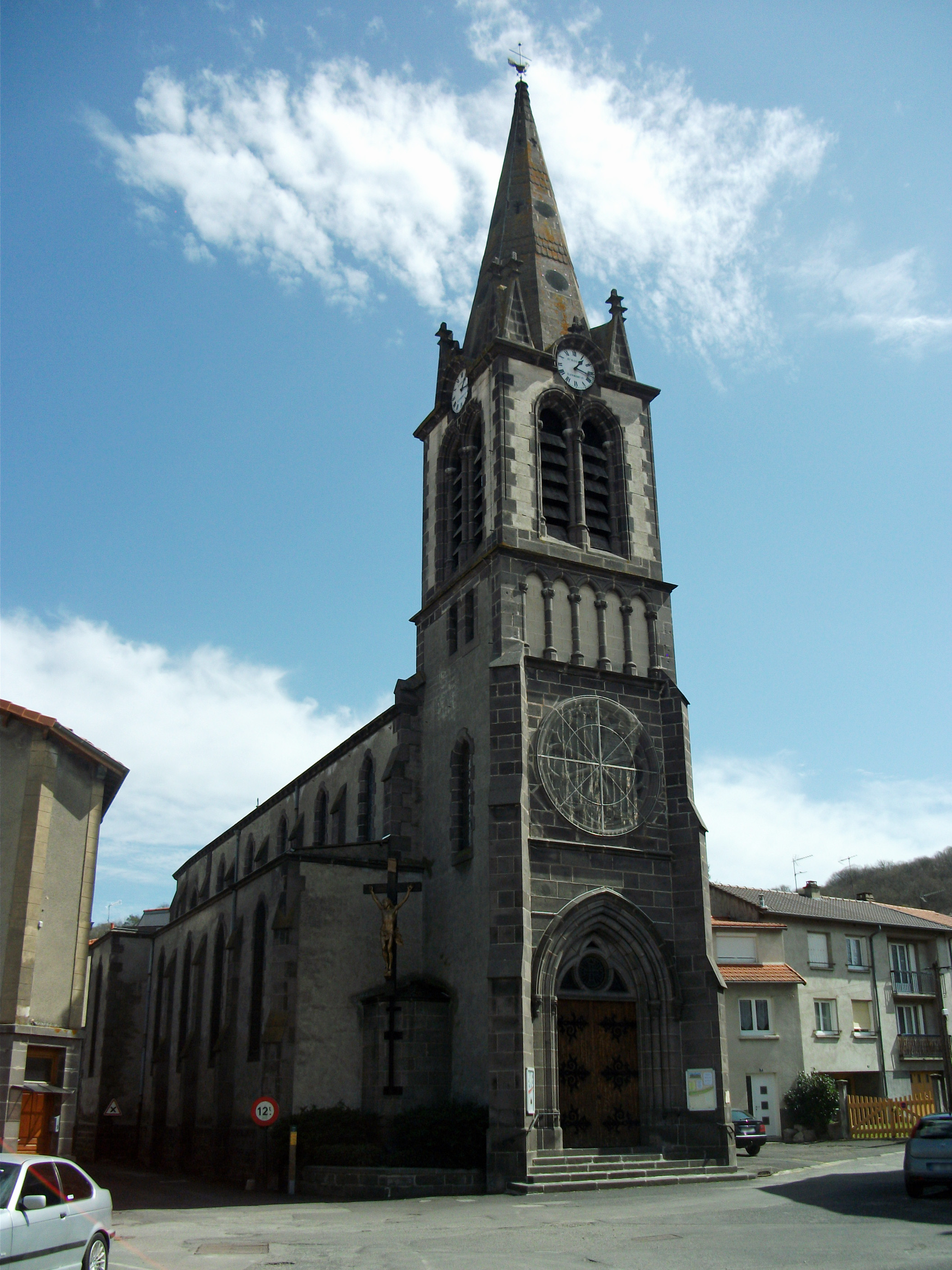 Nohanent's church. Elevation 440 m/1,444 ft